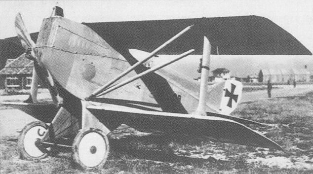 Photo of Lohner 10.20B Type AA fighter (D.I 111.02 - third version)